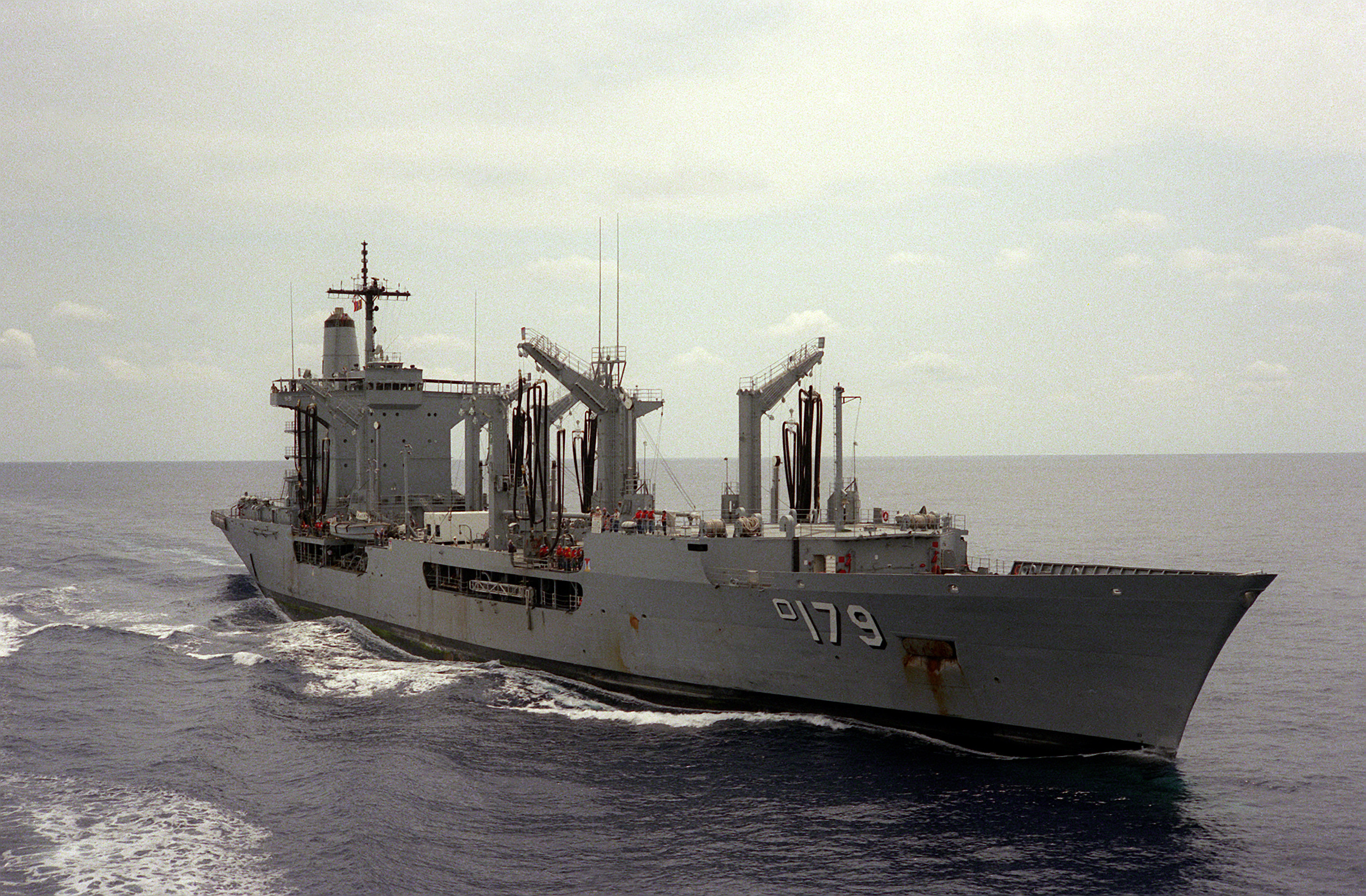 The U.S. Navy replenishment oiler USS Merrimack (AO-179) underway off the Virginia Capes (USA) on 1 July 1985.